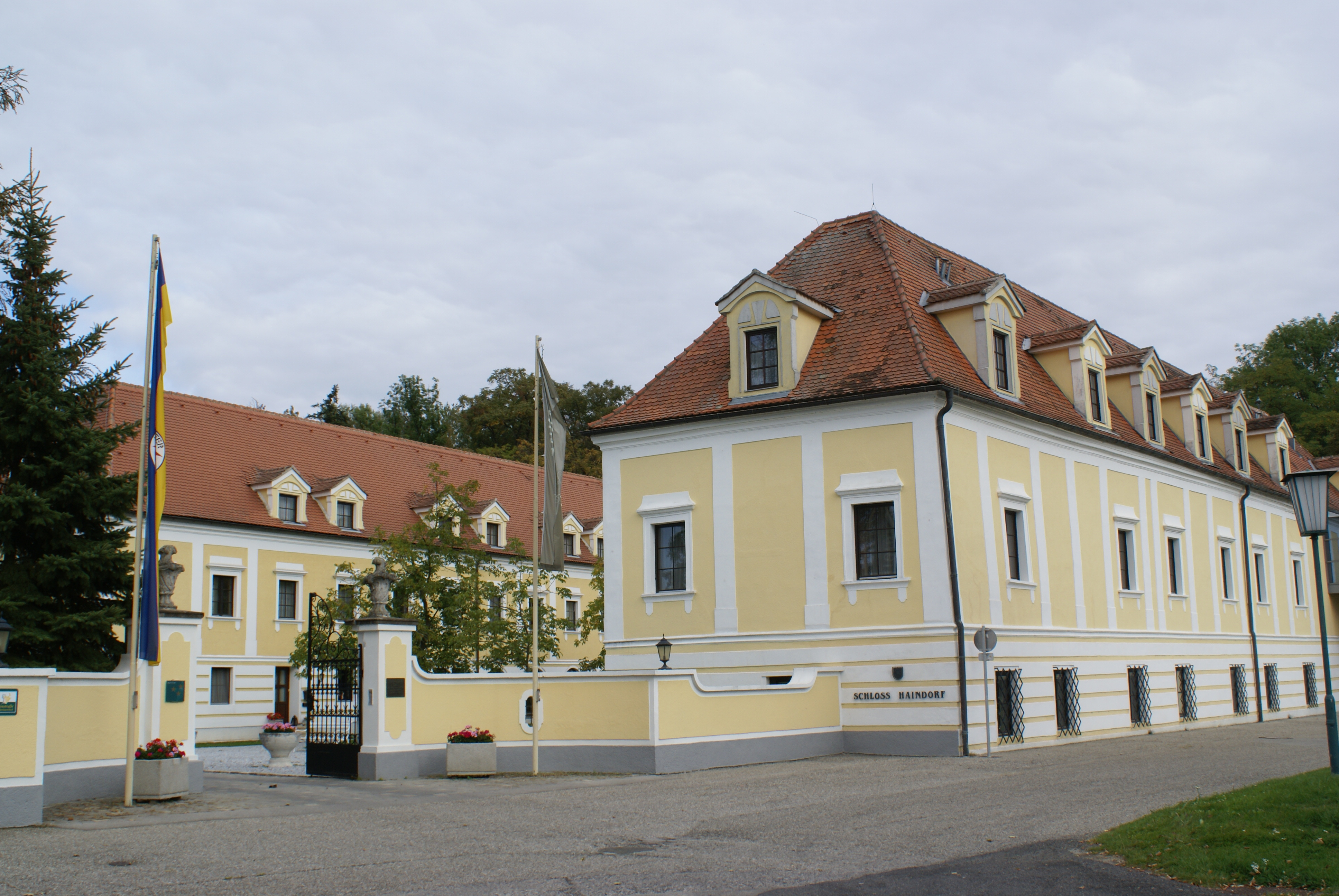 Lower castle; today: Hainburg castle